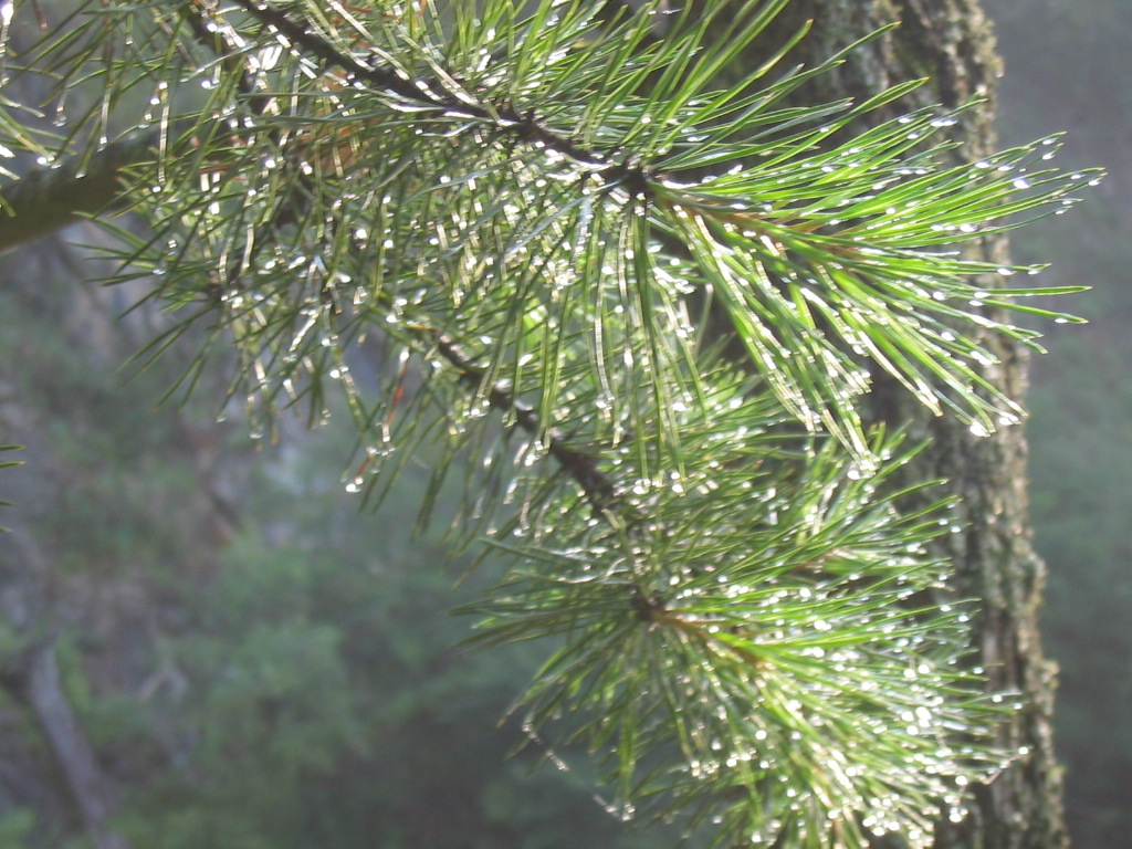 Aygir on Inzer river in Beloretsk region of Bashkortostan of Russian Federation